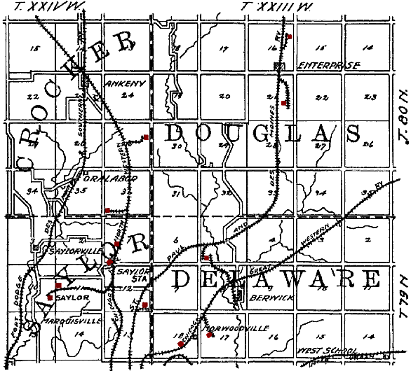 Original caption: "Figure 35. Map showing location of principal Polk County mines outside of the Des Moines district." Saylorville, Iowa is in the lower left quadrant. Mines have been tinted red by the uploader. The railroads shown on the map are: Fort Dodge, Des Moines and Southern Railroad, Chicago and North Western Railroad, St. Paul and Des Moines Railroad, Chicago Great Western Railroad and an unidentified Interurban.